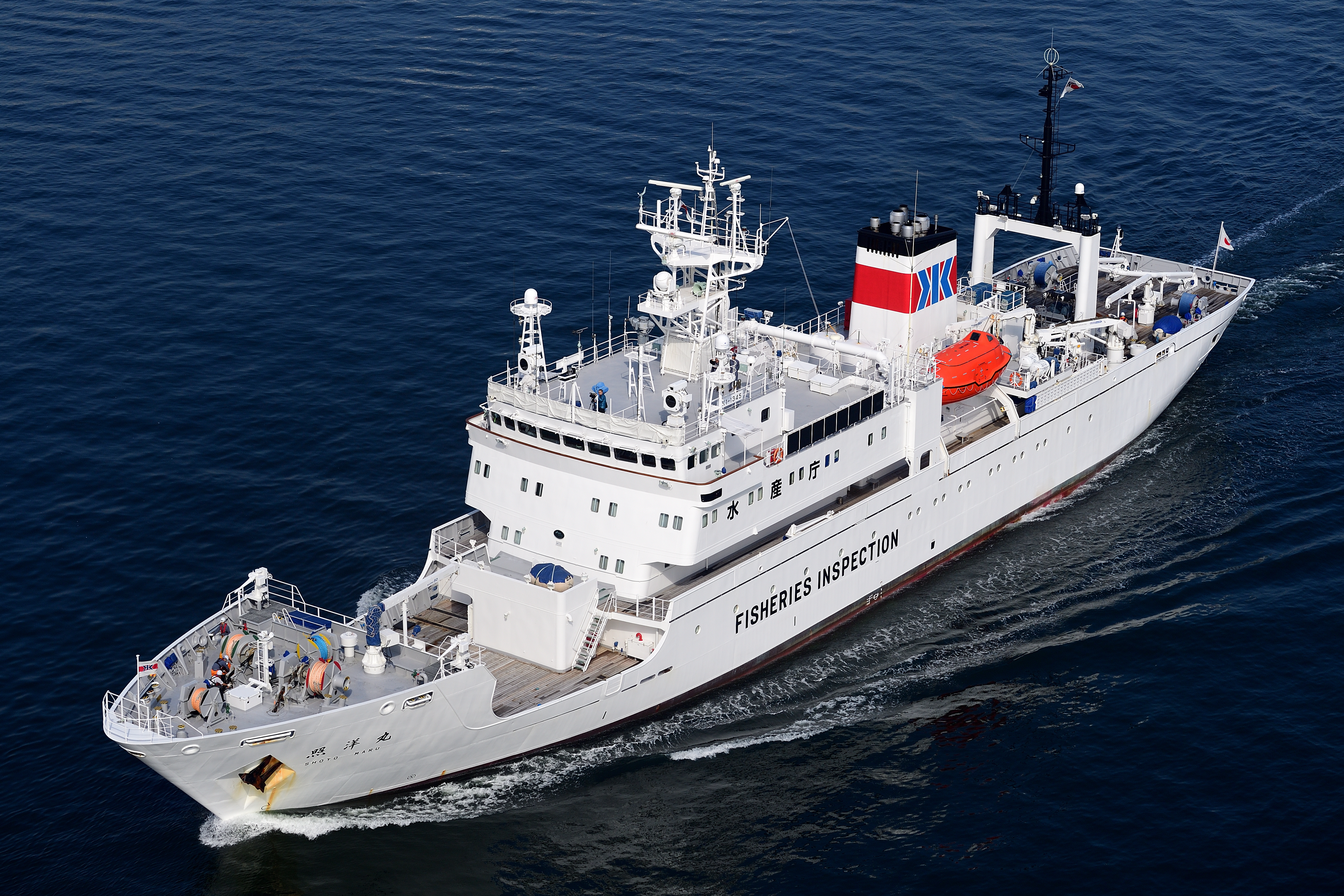 Fisheries Inspection Vessel Shoyo Maru departing Tokyo